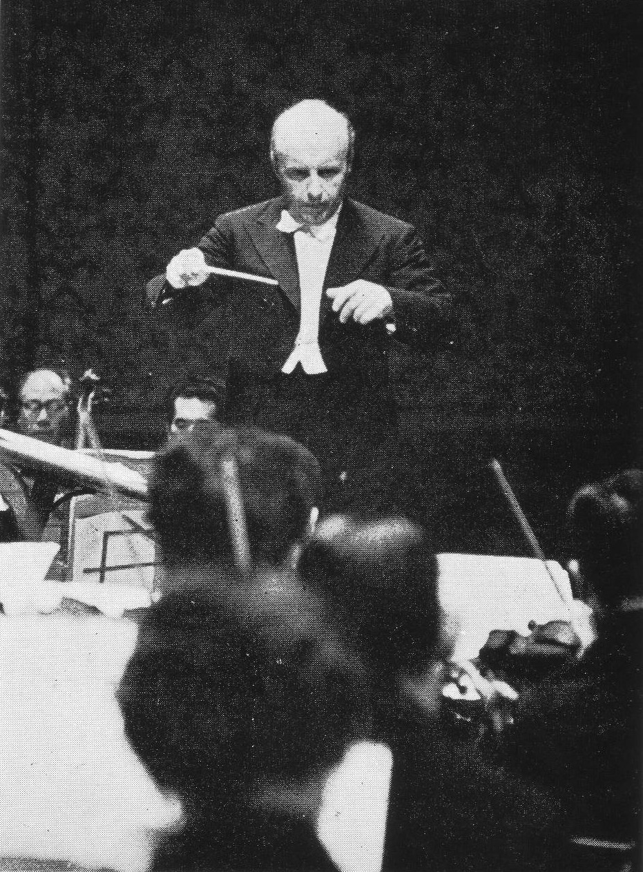 Andre Kostelanetz contucting from NHK Symphony Orchestra(1955).